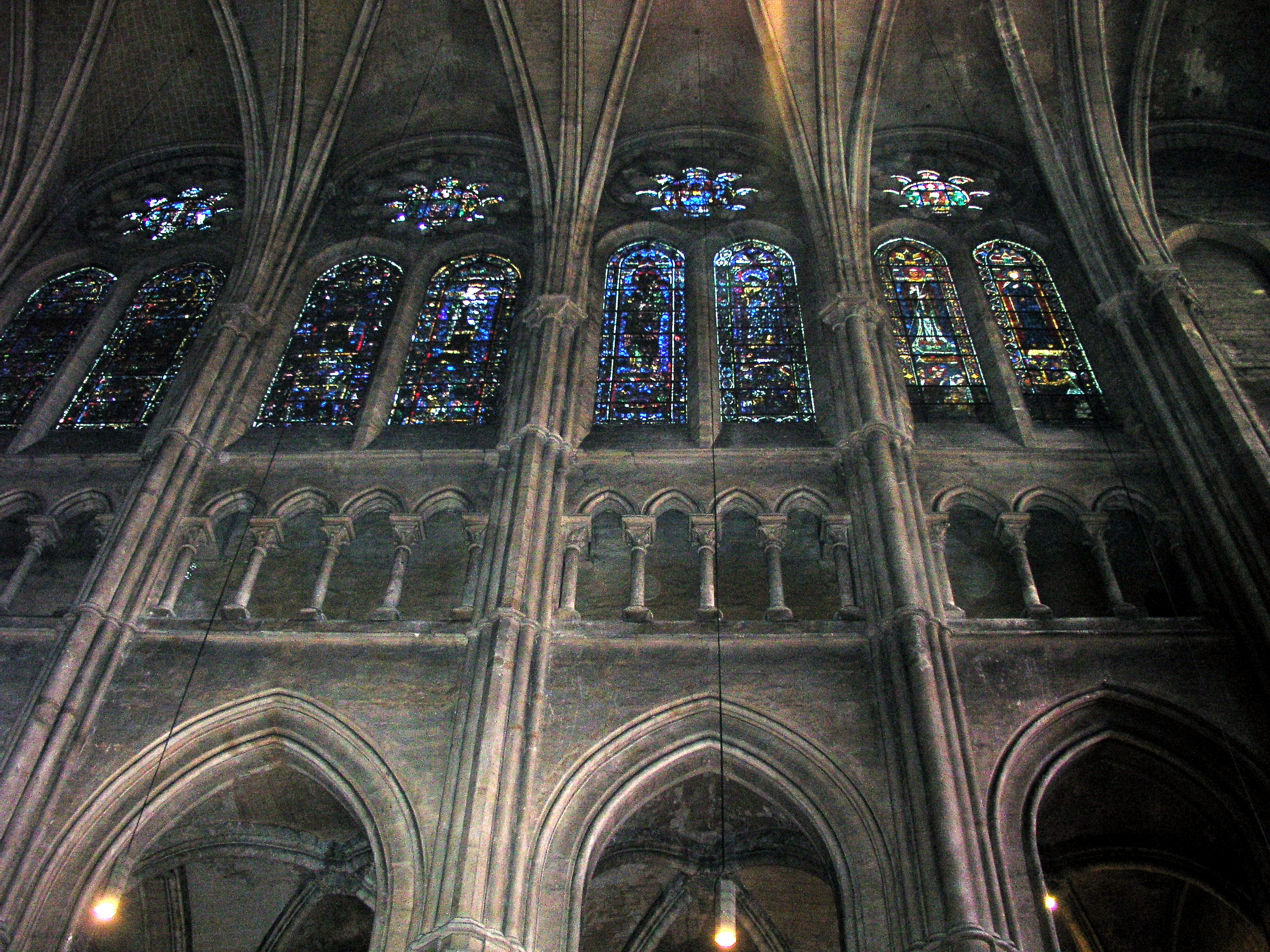 Three tiers wall structure of Chartres Cathedral Arcade Triforium Clerestorey (with 2 windows united by a small round Rossete window)